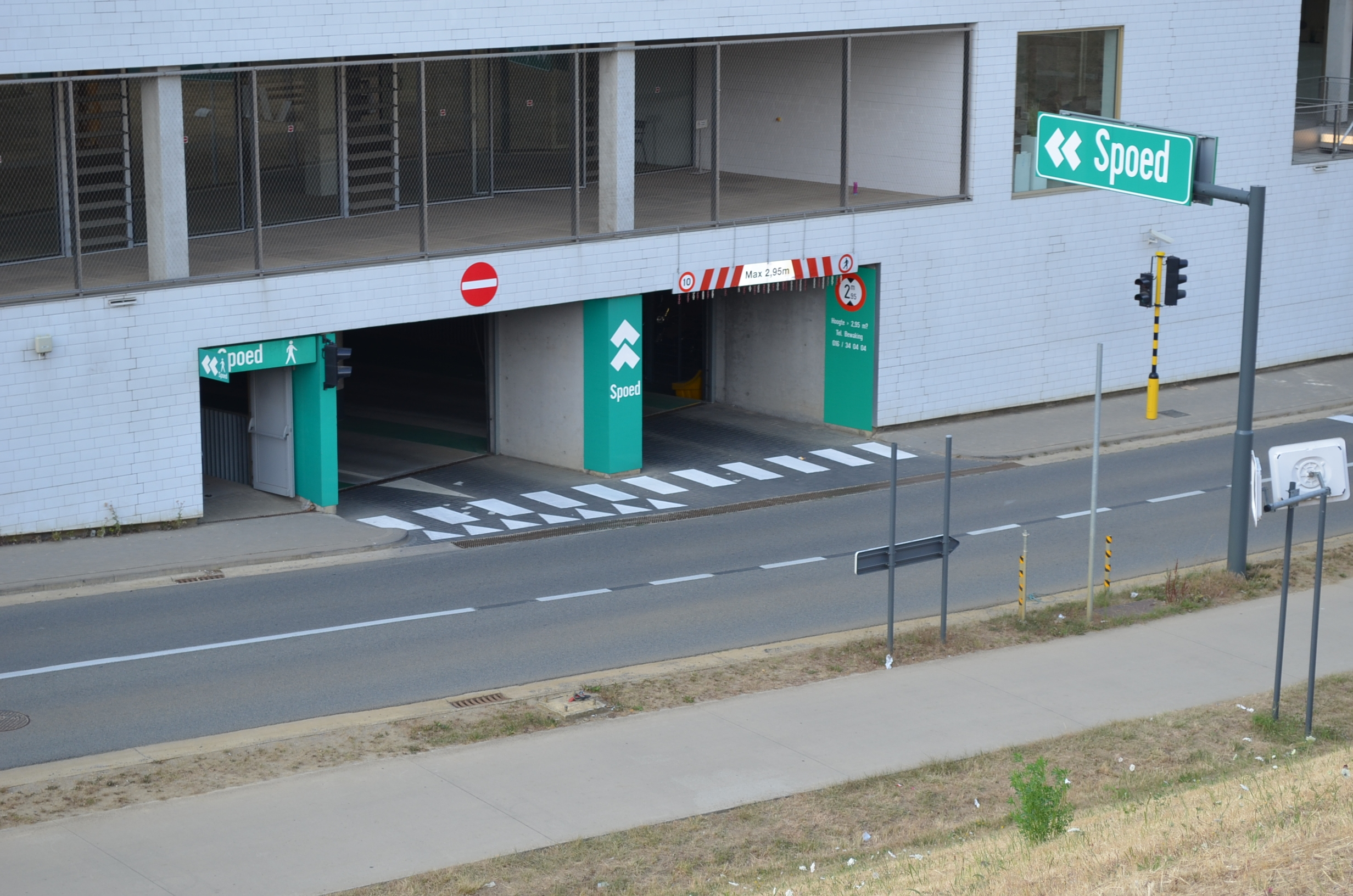 Health Sciences Campus Gasthuisberg UZ Leuven